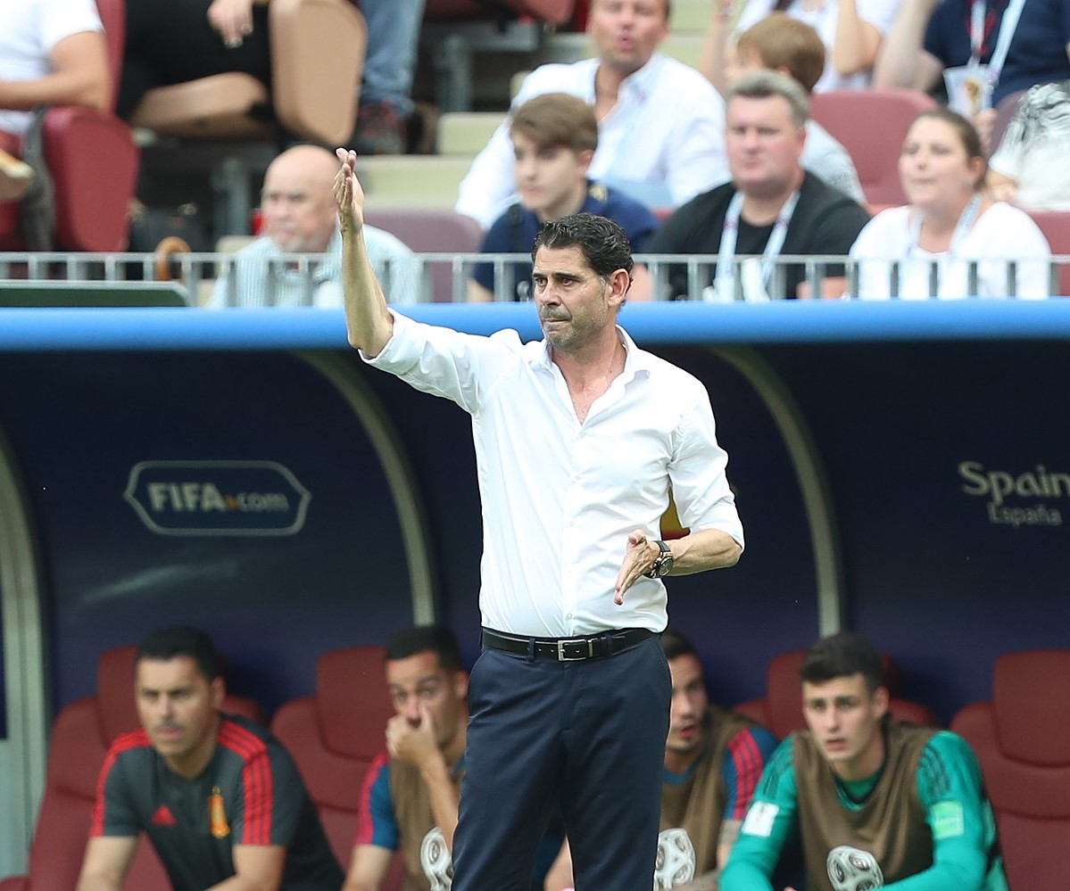 Fernando Hierro